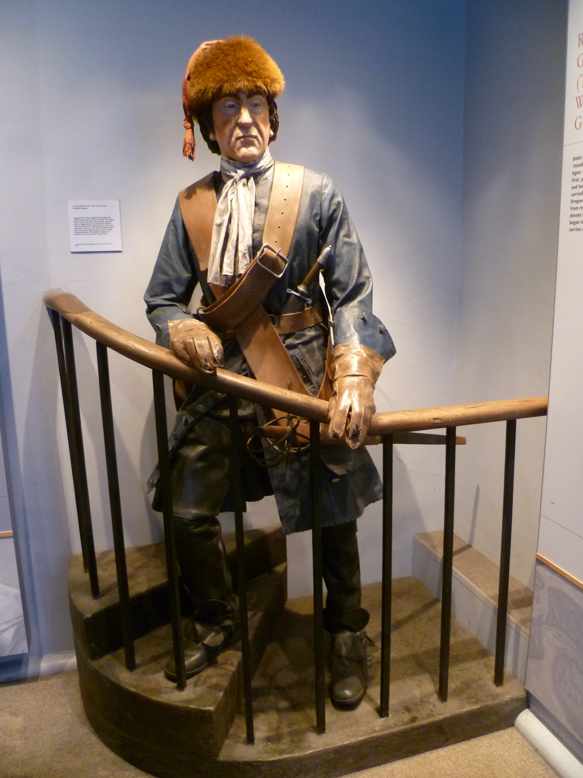 In 1683, General Dalziel ordered from New Mills near Haddington 2,536 ells of 'stone-grey cloth' for his regiment of dragoons, hence their adopted name, the 'Scots Greys'. An exhibit in the National War Museum, Edinburgh Castle.